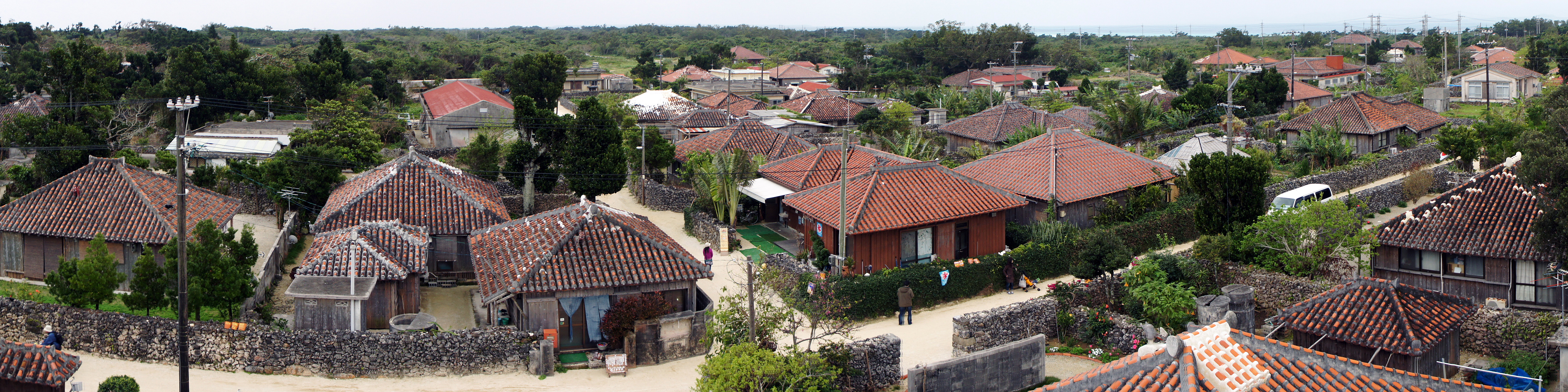 at Taketomi Island in Taketomi Town, Okinawa Prefecture, Japan. It is one of the Japan's Important Preservation Districts for Groups of Historic Buildings.